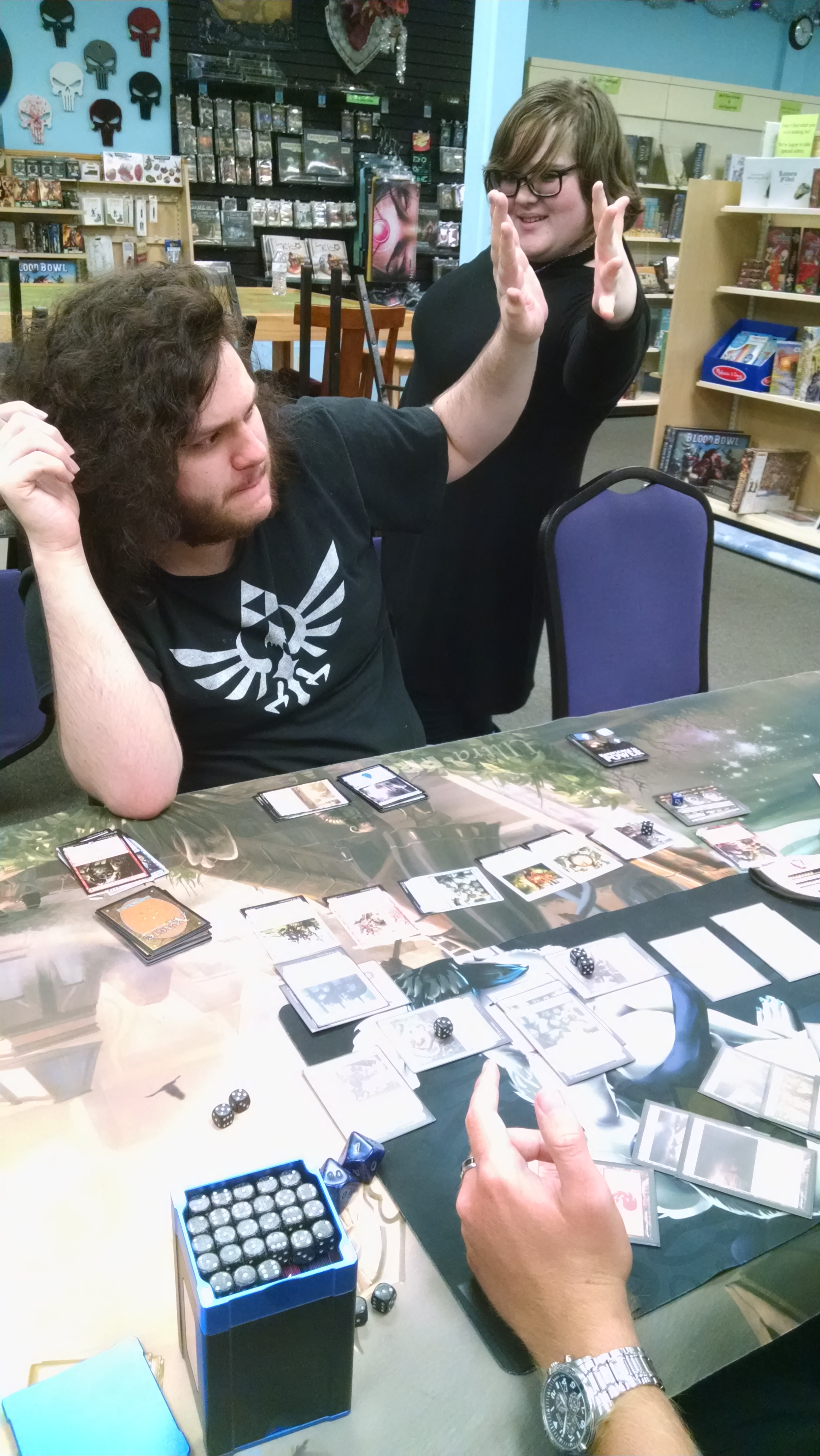 Photo of two Magic: The Gathering players engaged in a high-five during the midnight release draft of the Unstable expansion. Attribution for this photo must go to Steven Keys and to (with link).